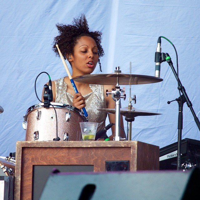 Kate Nash's drummer, Alicia Warrington, performing at Lollapalooza. August 2, 2014 - Chicago